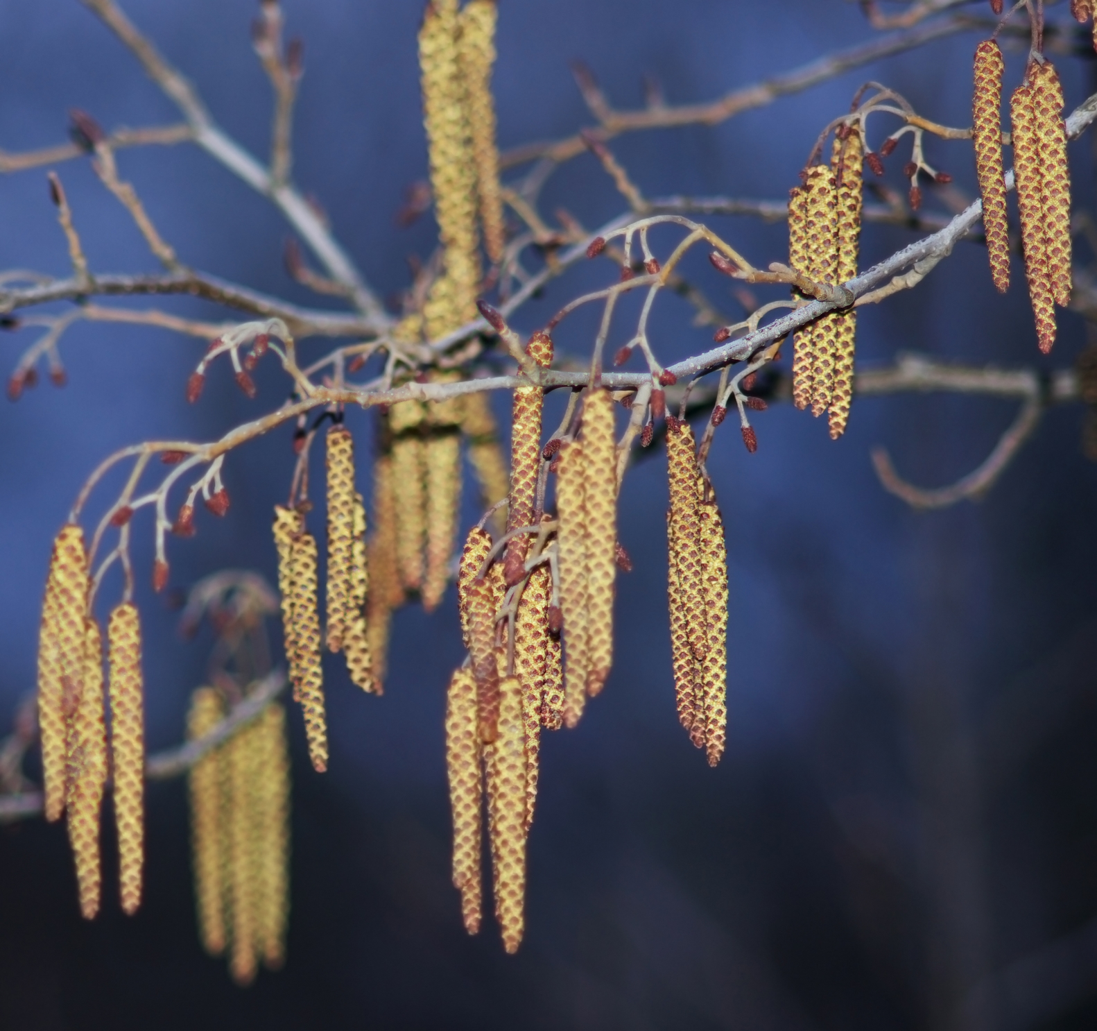 Black alder, European alder (Alnus glutinosa Gaertn.) - male and female inflorescences